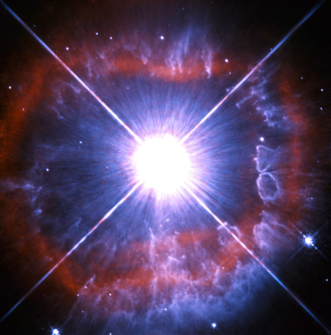 In this new Hubble image, the strikingly luminous star AG Carinae — otherwise known as HD 94910 — takes centre stage. Found within the constellation of Carina in the southern sky, AG Carinae lies 20 000 light-years away, nestled in the Milky Way. AG Carinae is classified as a Luminous Blue Variable. These rare objects are massive evolved stars that will one day become Wolf-Rayet Stars — a class of stars that are tens of thousands to several million times as luminous as the Sun. They have evolved from main sequence stars that were twenty times the mass of the Sun. Stars like AG Carinae lose their mass at a phenomenal rate. This loss of mass is due to powerful stellar winds with speeds of up to 7 million km/hour. These powerful winds are also responsible for the shroud of material visible in this image. The winds exert enormous pressure on the clouds of interstellar material expelled by the star and force them into this shape. Despite HD 94910’s intense luminosity, it is not visible with the naked eye as much of its output is in the ultraviolet. This image was taken with the Wide Field and Planetary Camera 2 (WFPC2), that was installed on Hubble during the Shuttle mission STS-61 and was Hubble’s workhorse for many years. It is worth noting that the bright glare at the centre of the image is not the star itself. The star is tiny at this scale and hidden within the saturated region. The white cross is also not an astronomical phenomenon but rather an effect of the telescope.